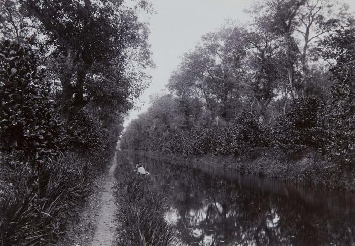 Canal at the 'Dordrecht' plantation